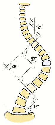 Cobb angle measurement in scoliosis Copyright (c) 2005 Skoliose-Info-Forum.de, Skoliose-Info-Forum.de GNU Free Documentation License 1.2